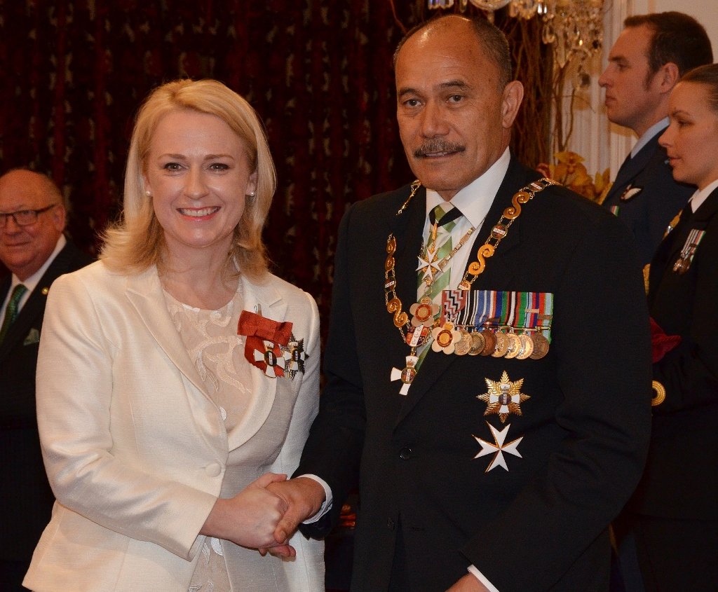 Therese Walsh, after her investiture as DNZM, for services to sports administration, by the governor-general, Sir Jerry Mateparae, on 10 September 2015